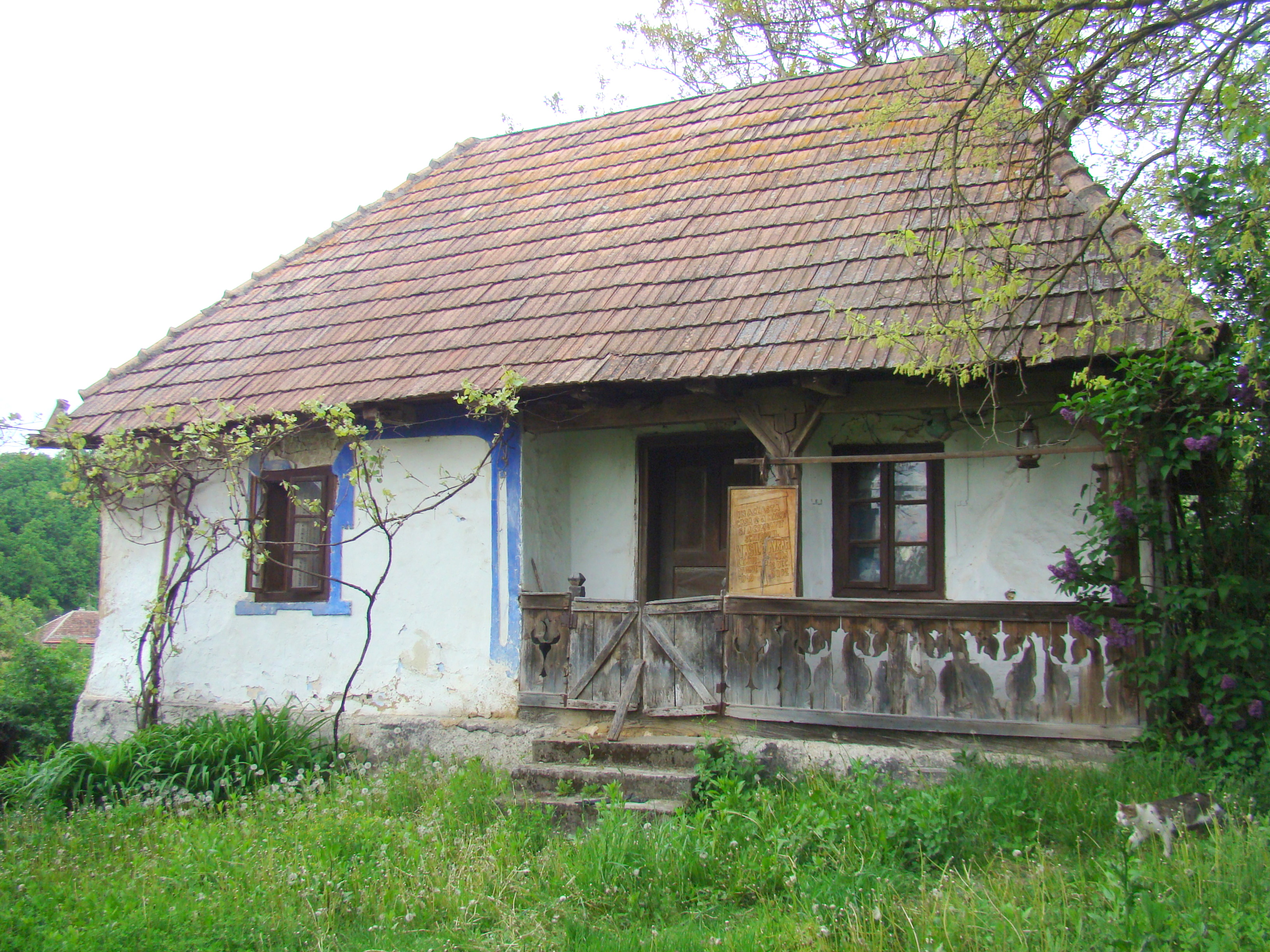 Memorial house of Vasile Avram in Lemniu, Sălaj county, Romania